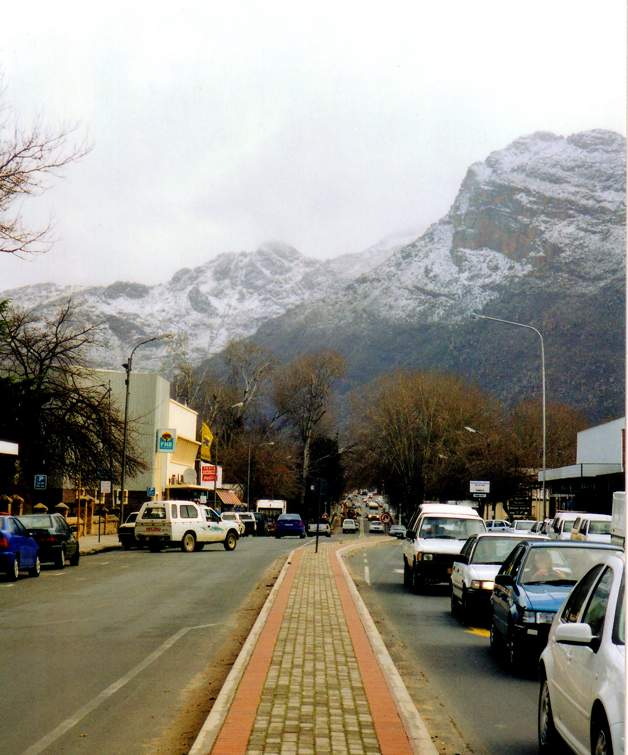 Taken by myself, Andres de Wet, in August 2003